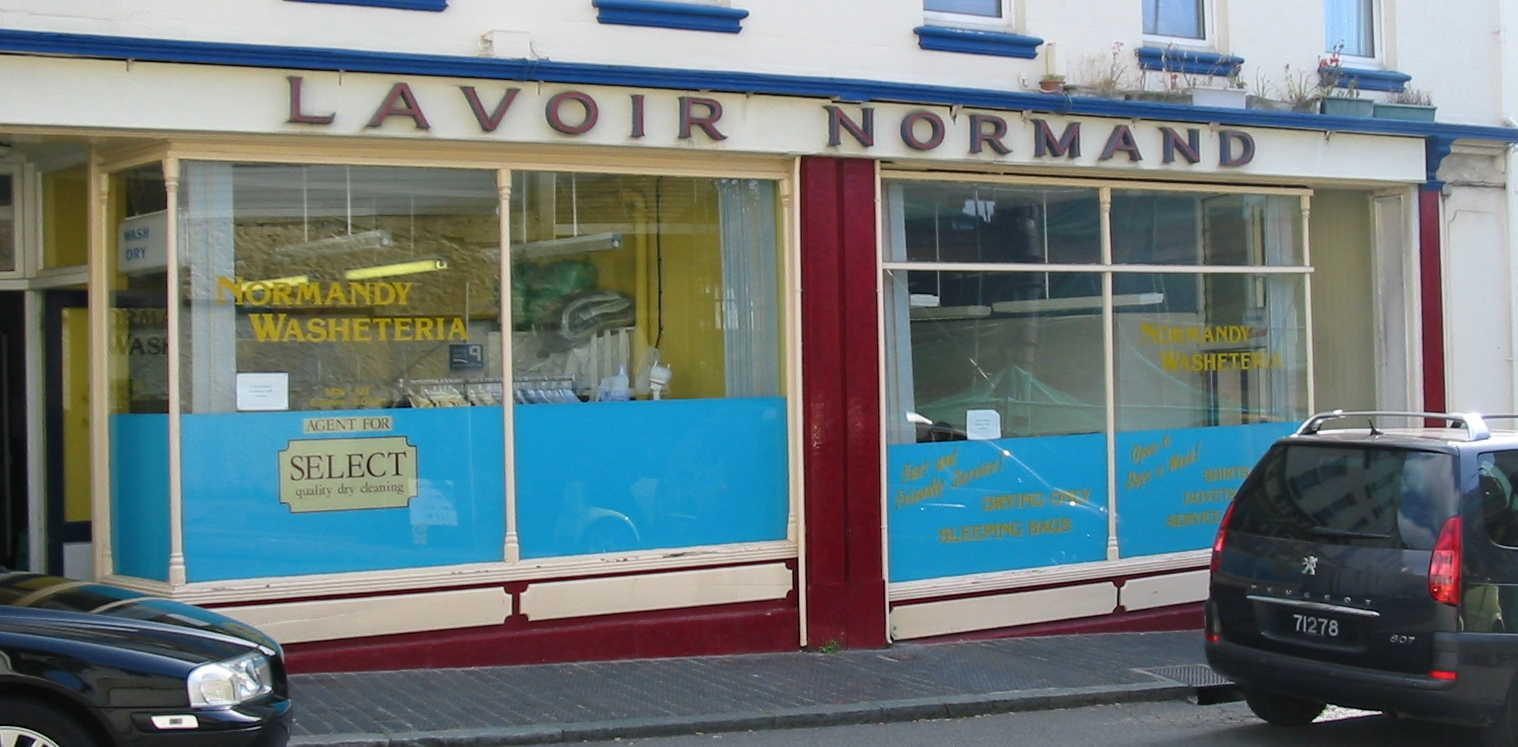 Old-fashioned shopfront of laundry in Guernsey